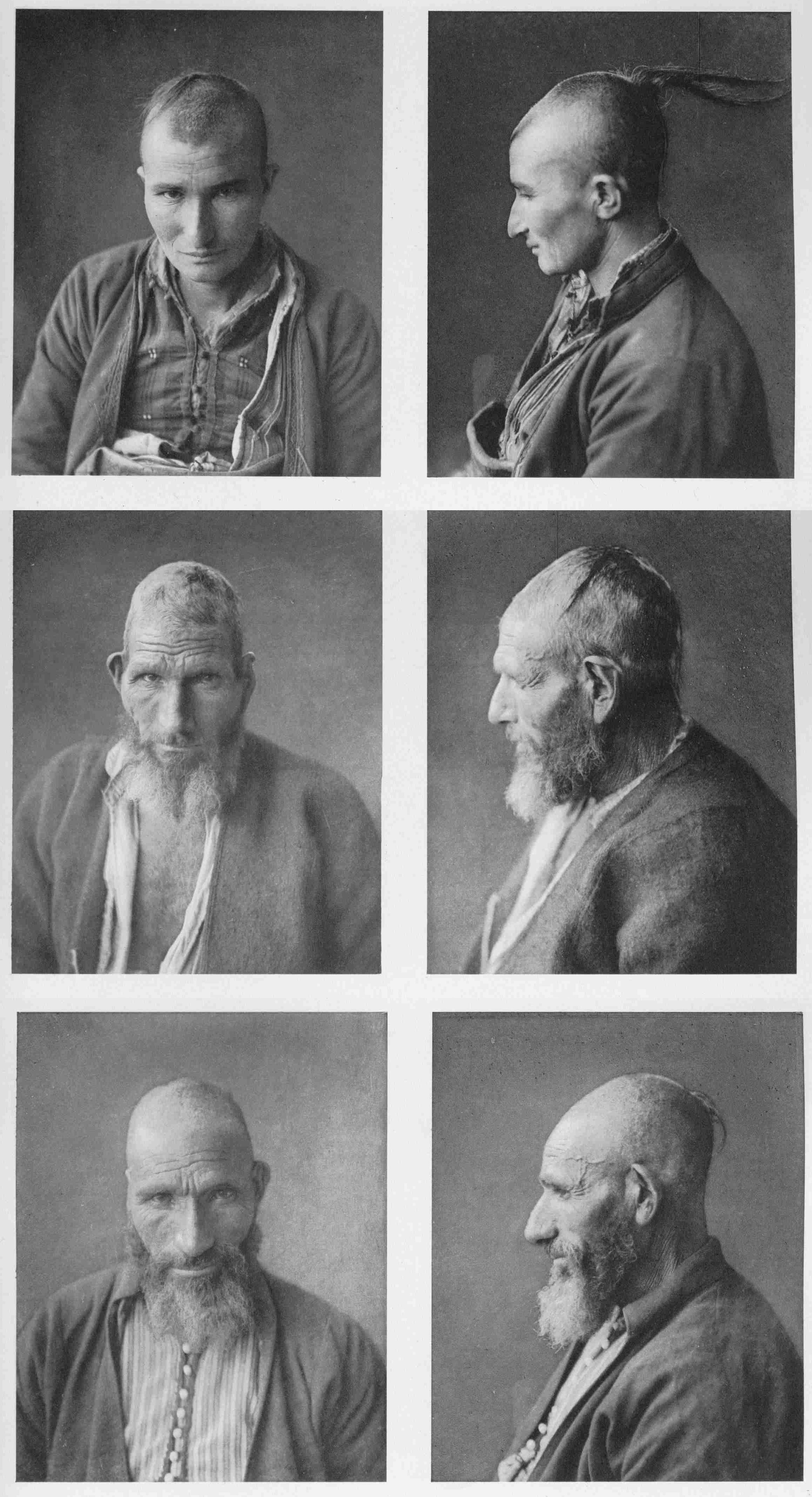 Anthropological essay on male Yörük adults (Felix von Luschan, 1889) Felix von Luschan 1889, in: Eugen Petersen & Felix von Luschan (Eds.): "Reisen in Lykien Milyas und Kibyratis", Carl Gerold's Sohn, Wien 1889, Tafeln XXXV-XXXVIII